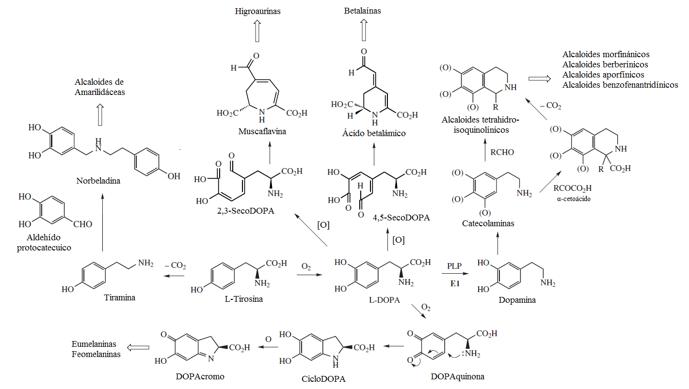 DOPA pathways scheme